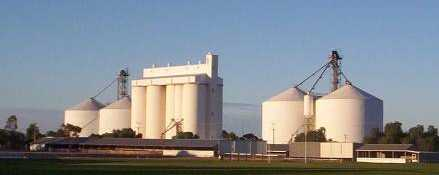 Photo of the Crystal Brook silos taken from the sports oval.